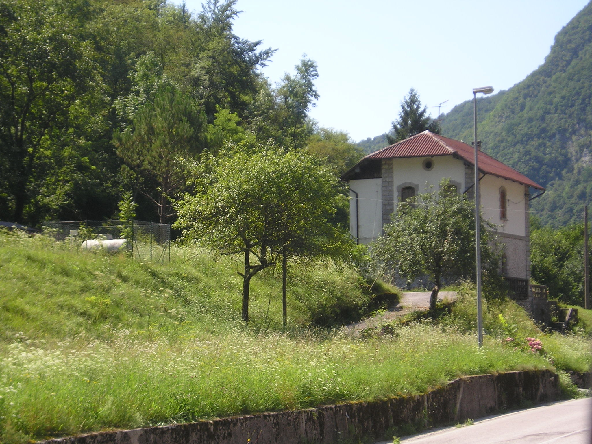 A view of the former railway station (on the former Cividale - Kobarid narrow gauge railway, 1916 - 1932) in Stupizza, Italy